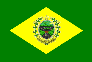 Bandeira de Orós